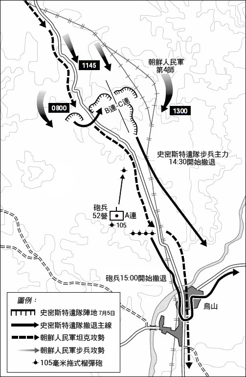 Task Force Smith near Osan, 5 July 1950 中文（台灣）: 美軍史密斯特遣隊位置圖，韓國烏山，1950年7月5日